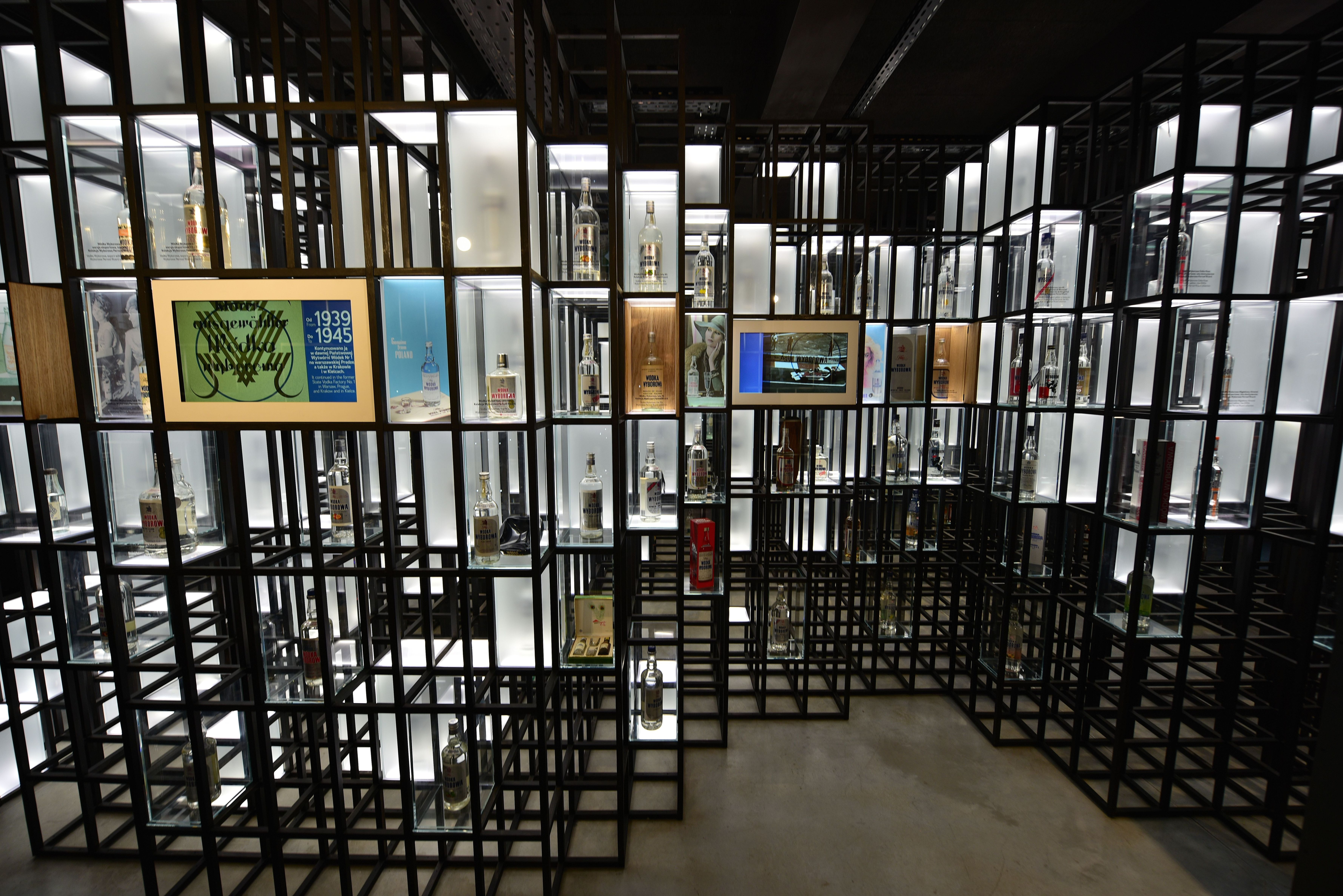 Polish Vodka Museum in Warsaw. Gallery 4